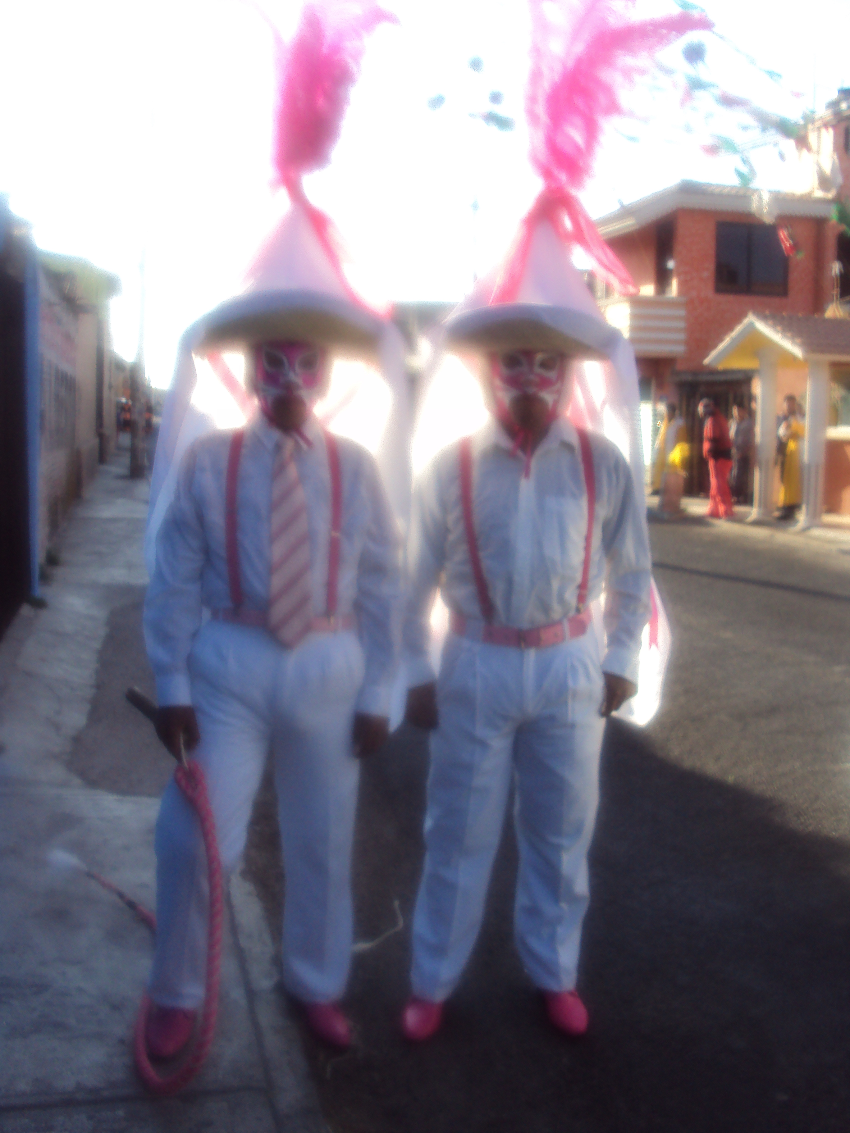 Muestra a DOs VAlientes Toreros de la Seccion Segunda, Carnaval Tenancingo 2011